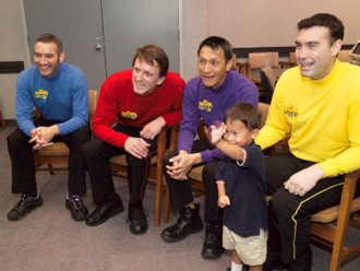 The wiggles during a visit to NASA. Alteration: horizontal flip by Simeon Scott